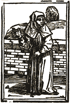 Picture of a beguine woman, from Des dodes dantz, printed in Lübeck in 1489.